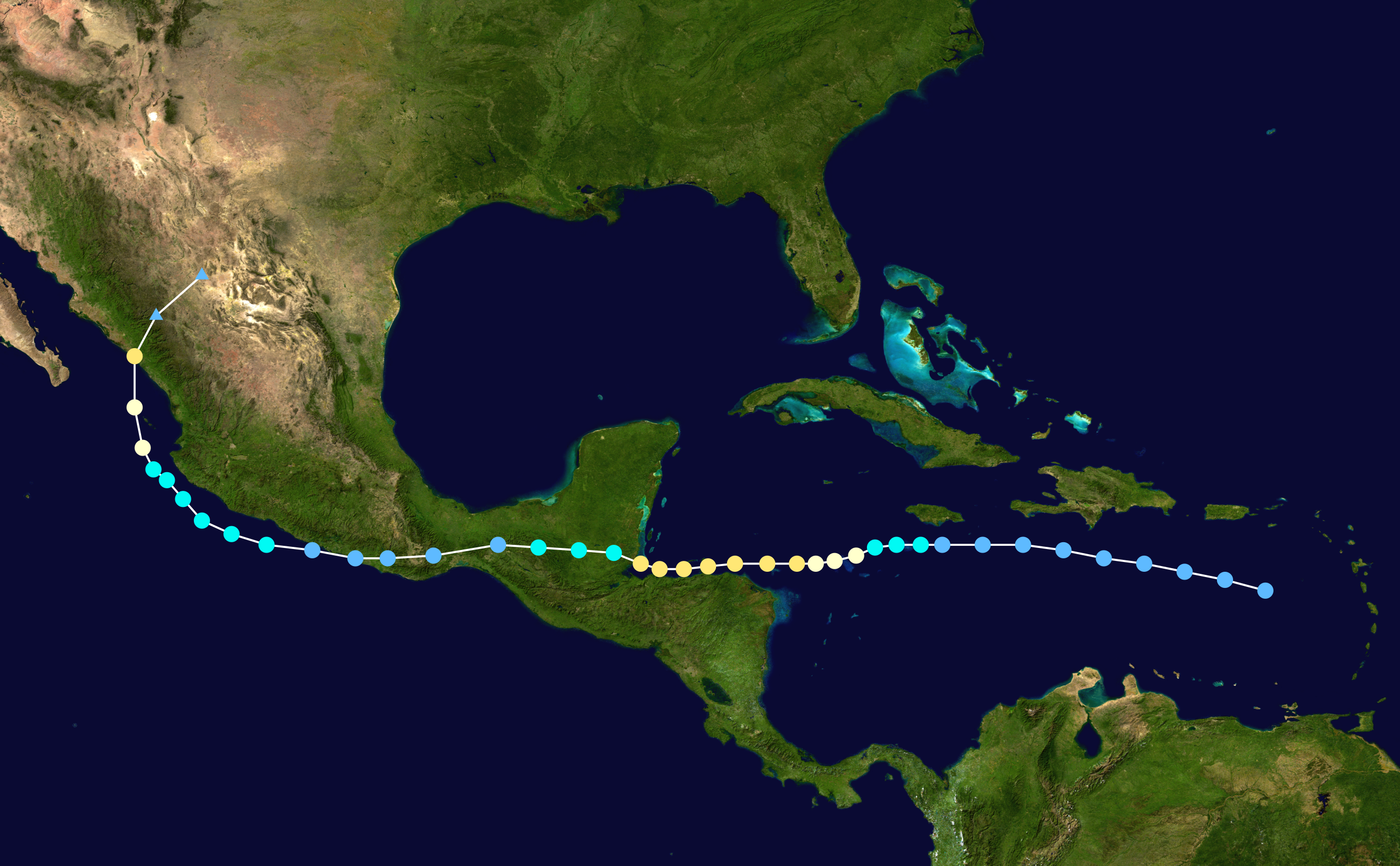 Hurricane Fifi–Orlene (1974) track. Uses the color scheme from the Saffir-Simpson Hurricane Scale.